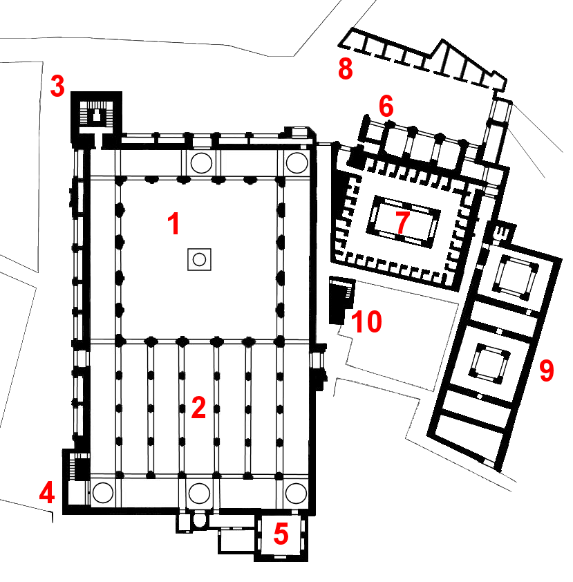 Floor plan of the Mouassine Mosque and its accompanying Saadian-era charitable buildings. The floor plan is based on a floor plan published by Almela (2019, "Religious Architecture as an Instrument for Urban Renewal: Two Religious Complexes from the Saadian Period in Marrakesh", Masaq, p. 285), as well as a floor plan published in Salmon (2016, "Marrakech: Splendeurs saadiennes: 1550-1650", p. 38). I tried to reproduce the floor plan as closely as possible, with a few details left out or simplified. Identification of the numbers: 1 = sahn of the mosque 2 = prayer hall 3 = minaret 4 = bayt al-'itikaf (retreat room) 5 = library 6 = Mouassine fountain 7 = midha (ablutions house) 8 = shops on Place Mouassine 9 = hammam (bathhouse) 10 = Qur'anic school Note: The hammam has been modified and rebuilt in later centuries and what you see here is the tentative reconstruction of the original (16th-century) floor plan in Almela's map. The actual floor plan of the building today may differ.